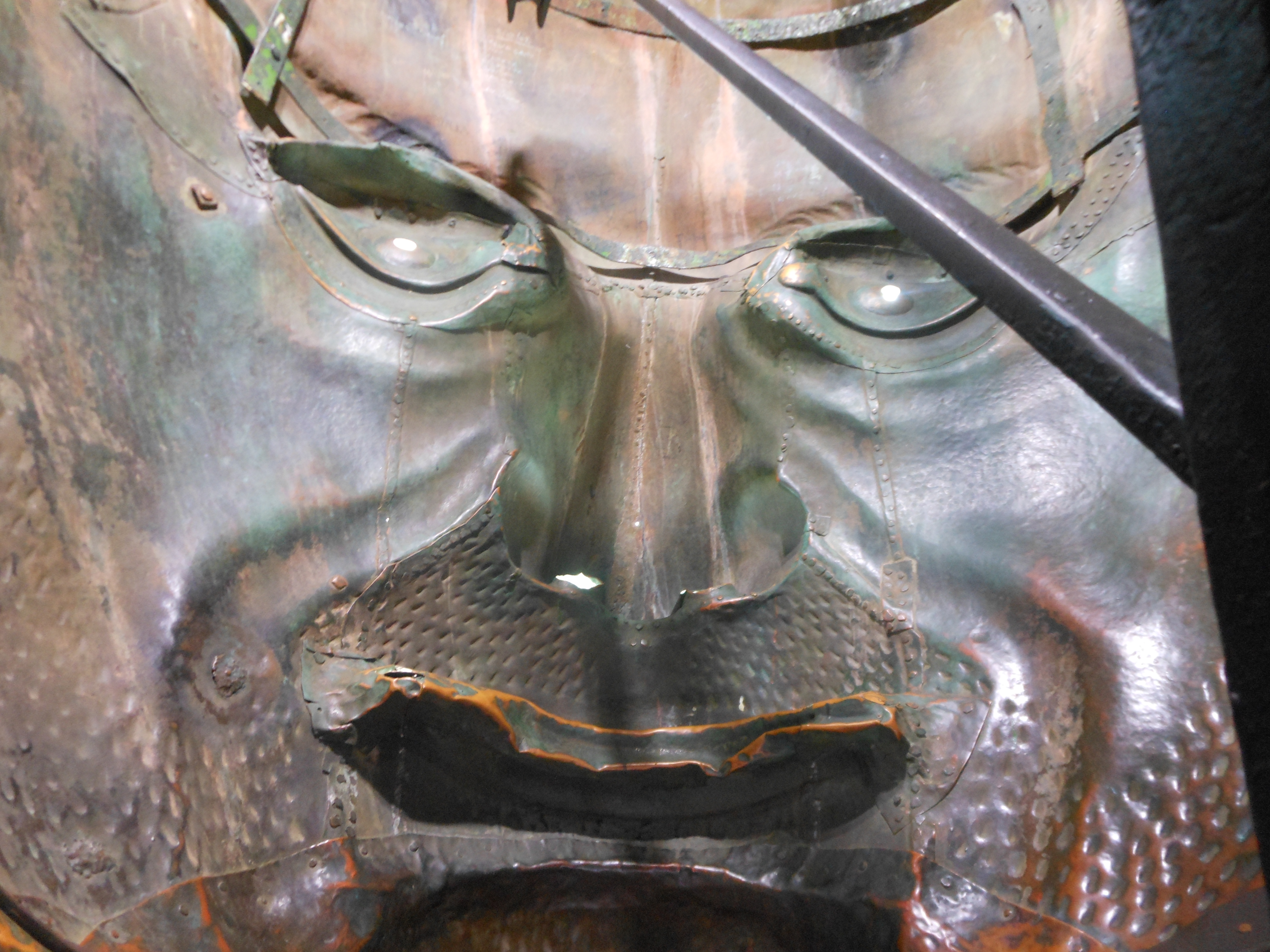 Details of the San Carlo's face inside the Colossus of San Carlo Borromeo at Arona - Italy